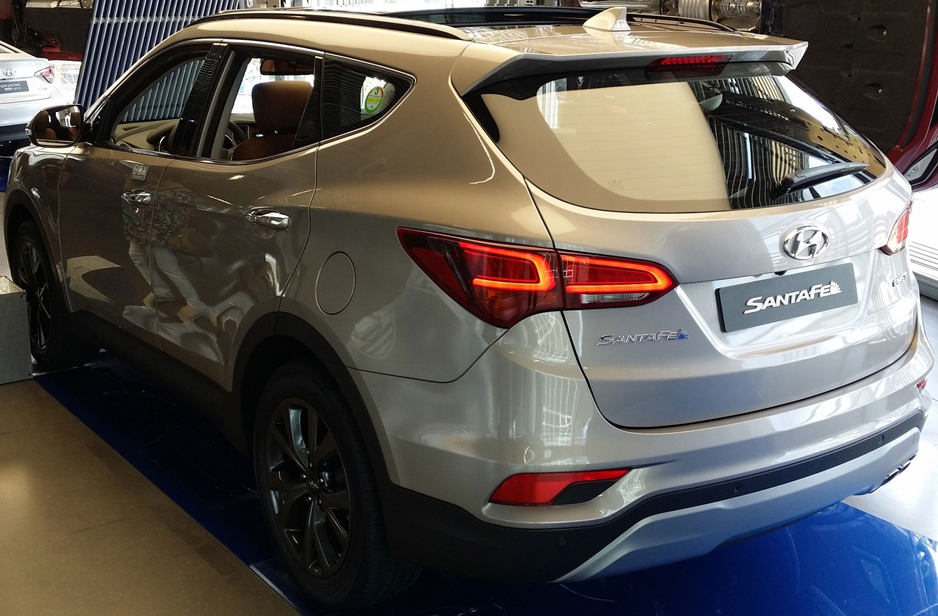 Hyundai Santa Fe The Prime